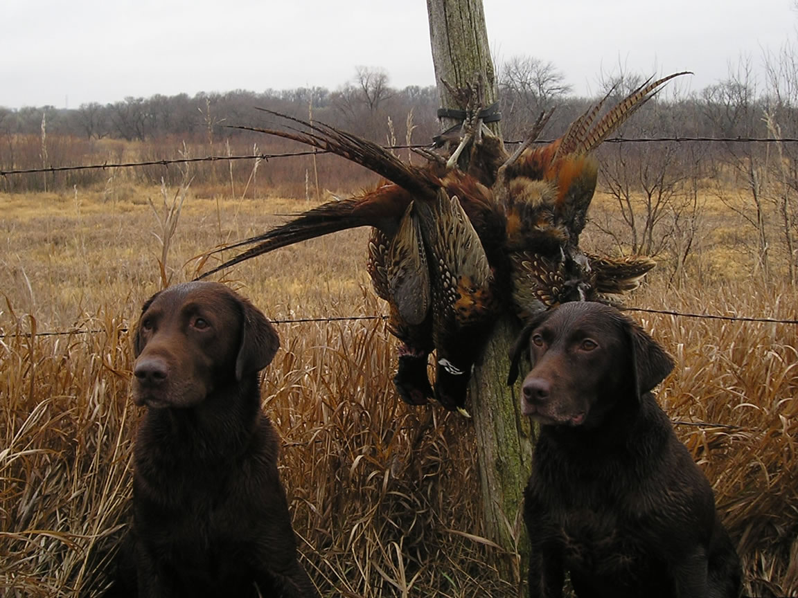 Fruits of the hunt!Mac & Anna